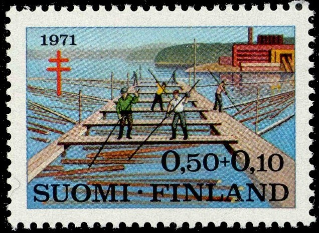 Separation of trees - timber floating